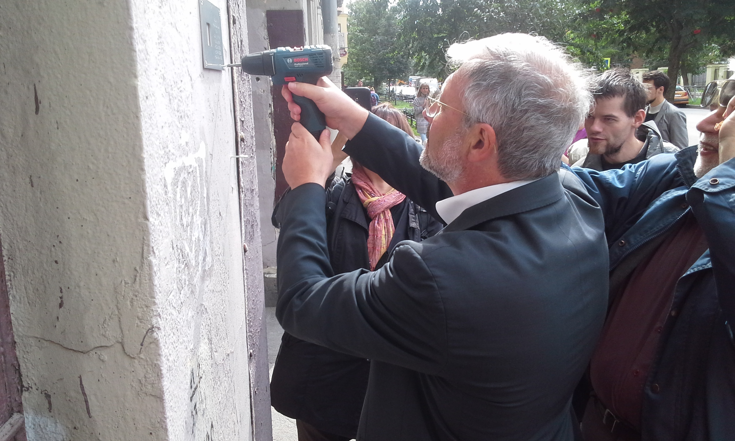 Last Address - Saint Petersburg, 6 Linia (Vasilievsky Island) 43 (2019-08-03)